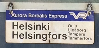 The coach-side name board of the Aurora Borealis passenger express train in Finland.